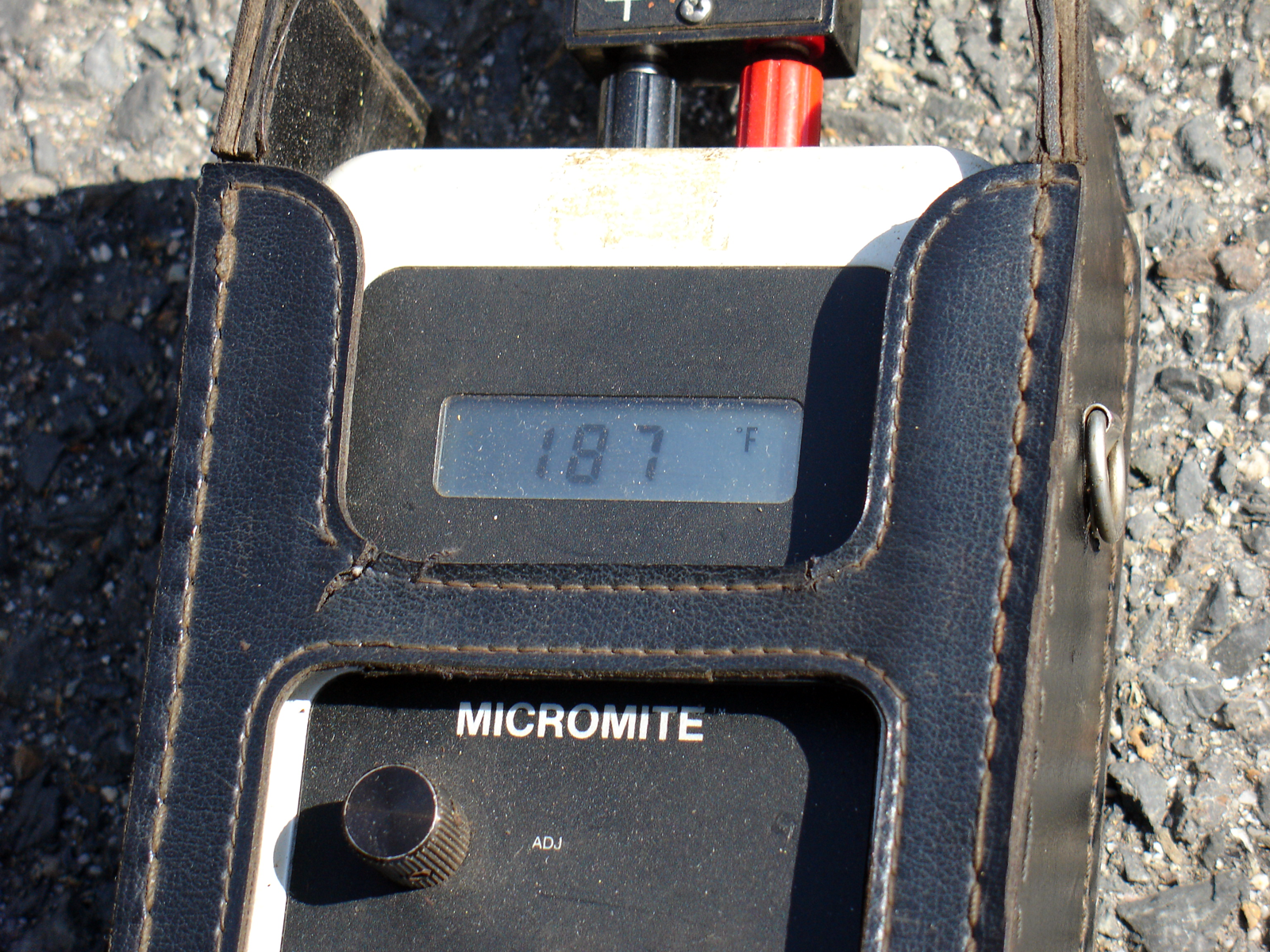 Thermocouple reading of a temperature probe approximately 10 feet down into a survey hole in Centralia, Pennsylvania. The town has been nearly abandoned due to an underground coal mine fire that has been burning for decades. Measurement performed by the Pennsylvania Department of Environmental Protection, March 21, 2007. 187°F = 86.1°C